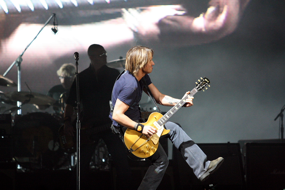 Keith Urban in concert, performing the duck walk